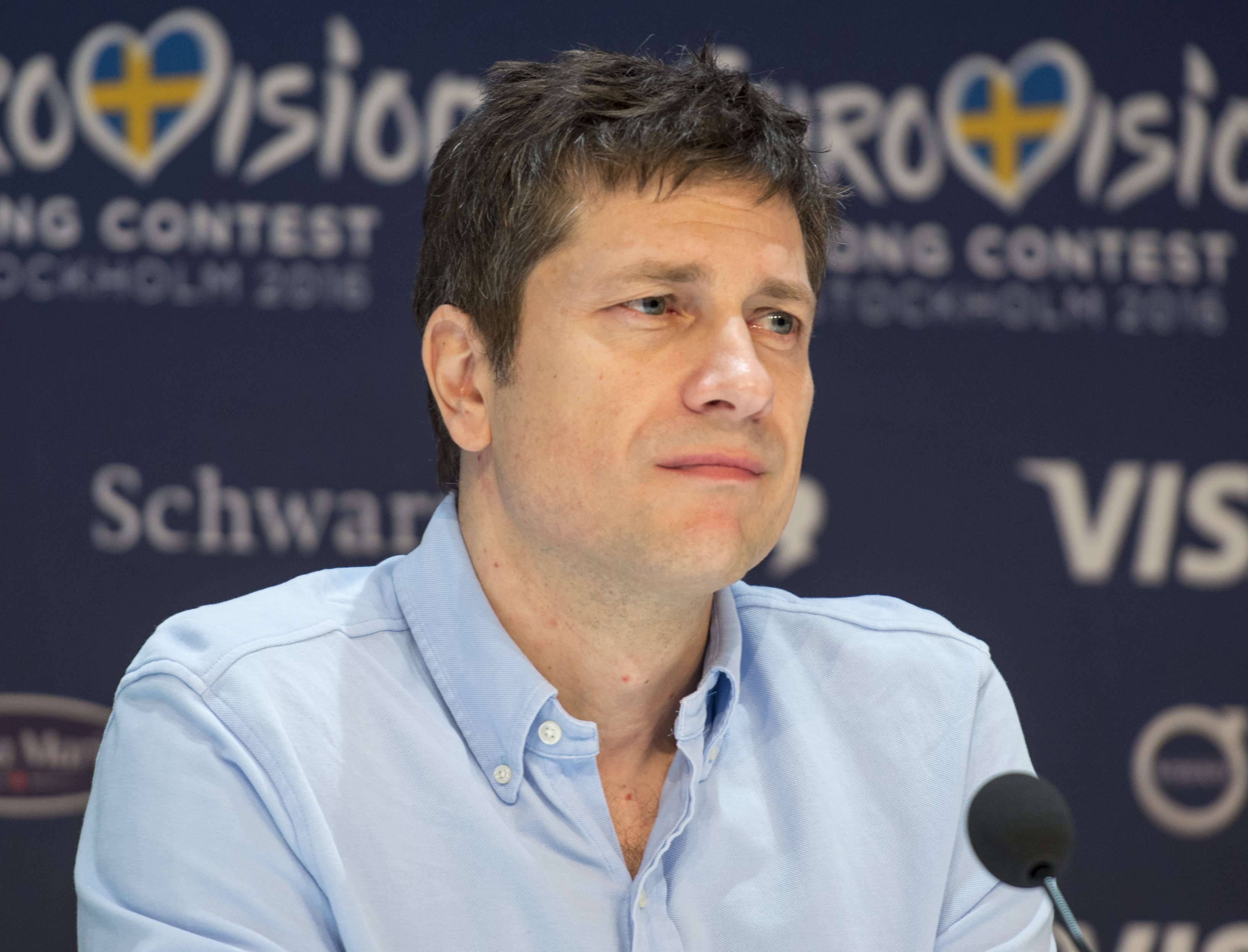 Sven Stojanovic at a press conference during the Eurovision Song Contest 2016 in Stockholm. (Help translate this text)